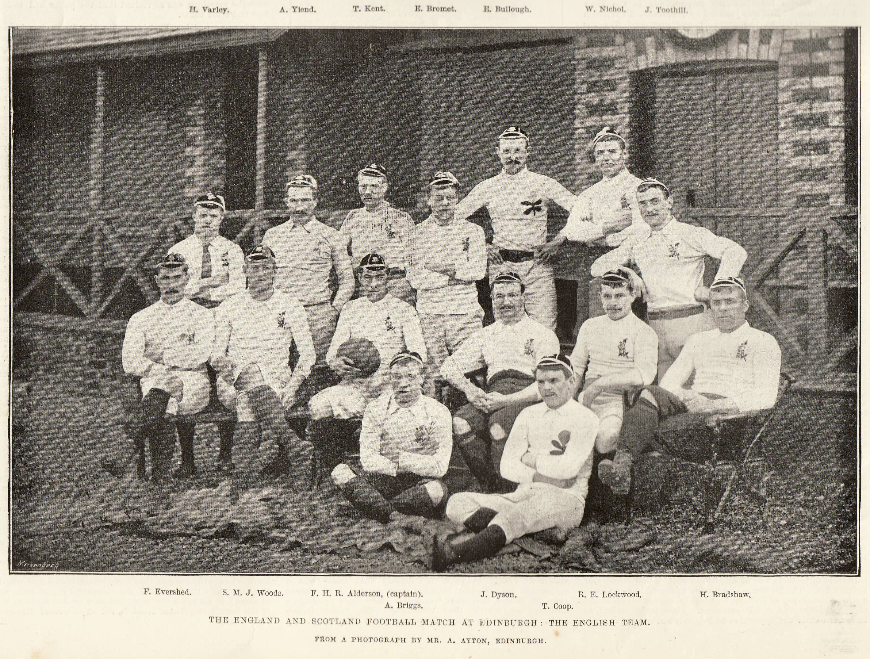 The England national rugby union team for the match v Scotland at Edinburg.